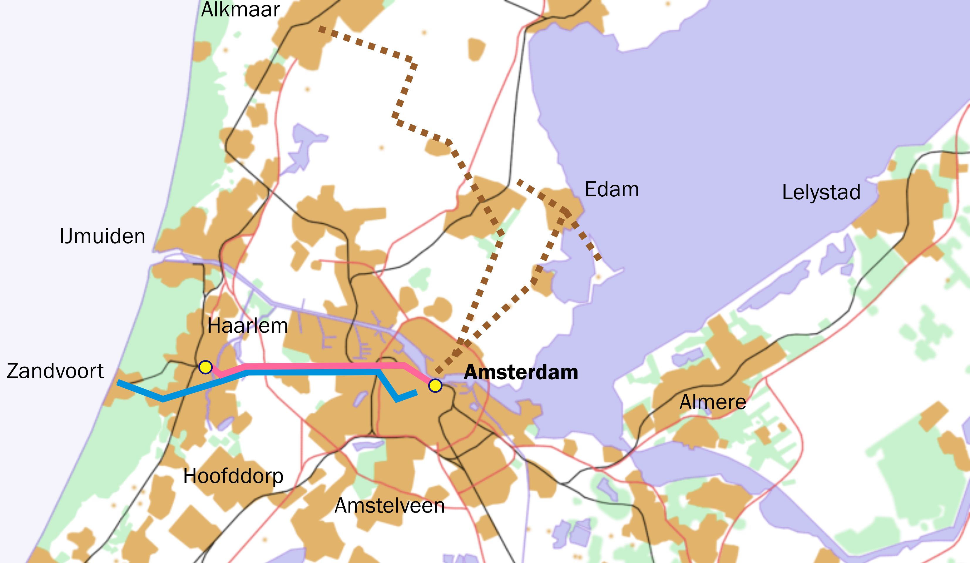 Map of the Haarlem-Amsterdam railway line (the oldest in the Netherlands) as well as the Amsterdam-Zandvoort tram, and a rather sketchy indication of the Blue Tram route into Waterland (Edam/Marken and Alkmaar). Had to resort to for the latter, but am more than willing to correct this if anyone has a better source. The background used is of course Randstad.png.